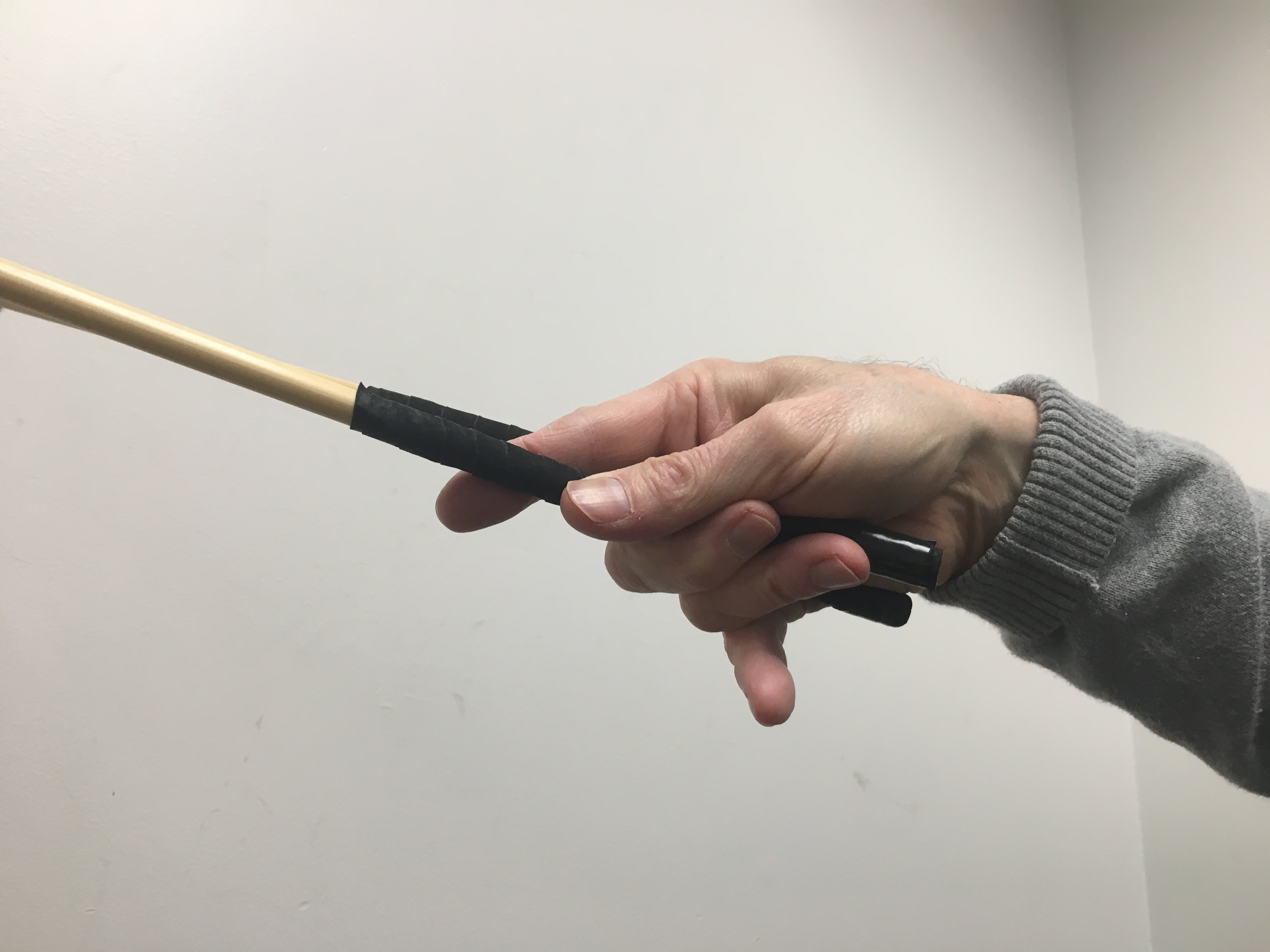 Small to mid, third finger holding outside mallet